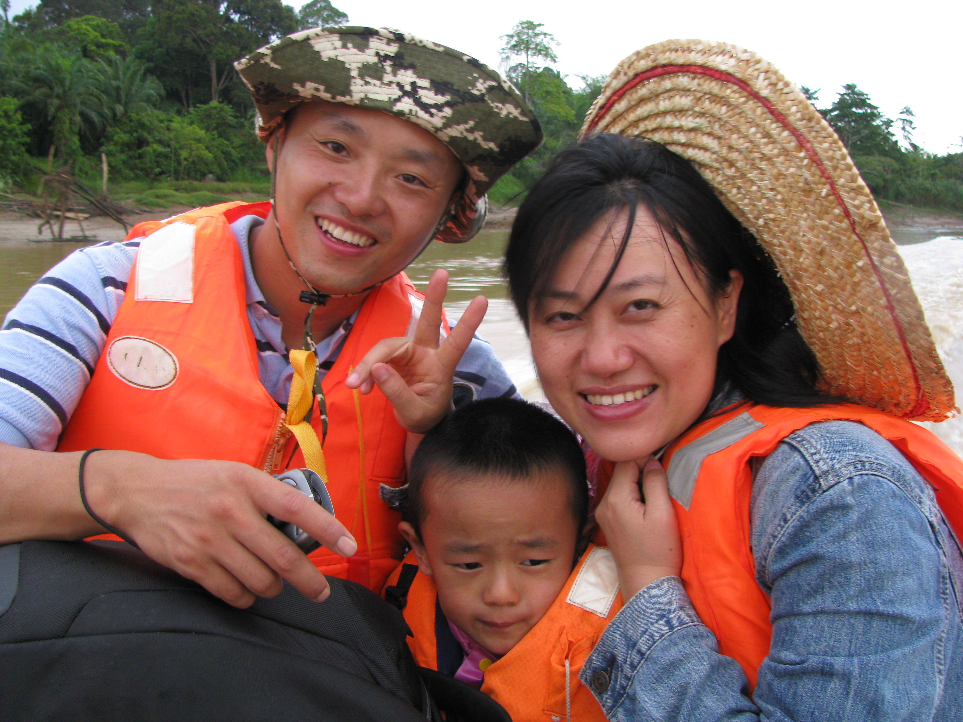 Accommodation at Uncle Tan's jungle camp is in open huts (open meaning no doors or windows). There is no concept of private huts, and you need to share with others. In the end I ended up sharing my hut with this lovely Chinese family. I was relieved when they said they didn't mind if I got in with them. You see, as a solo traveler, I was the odd one out. I needn't have worried, we got along perfectly well. (Uncle Tan's Wildlife Adventures, Kinabatangan River, Sabah, East Malaysia, Nov. 2013)